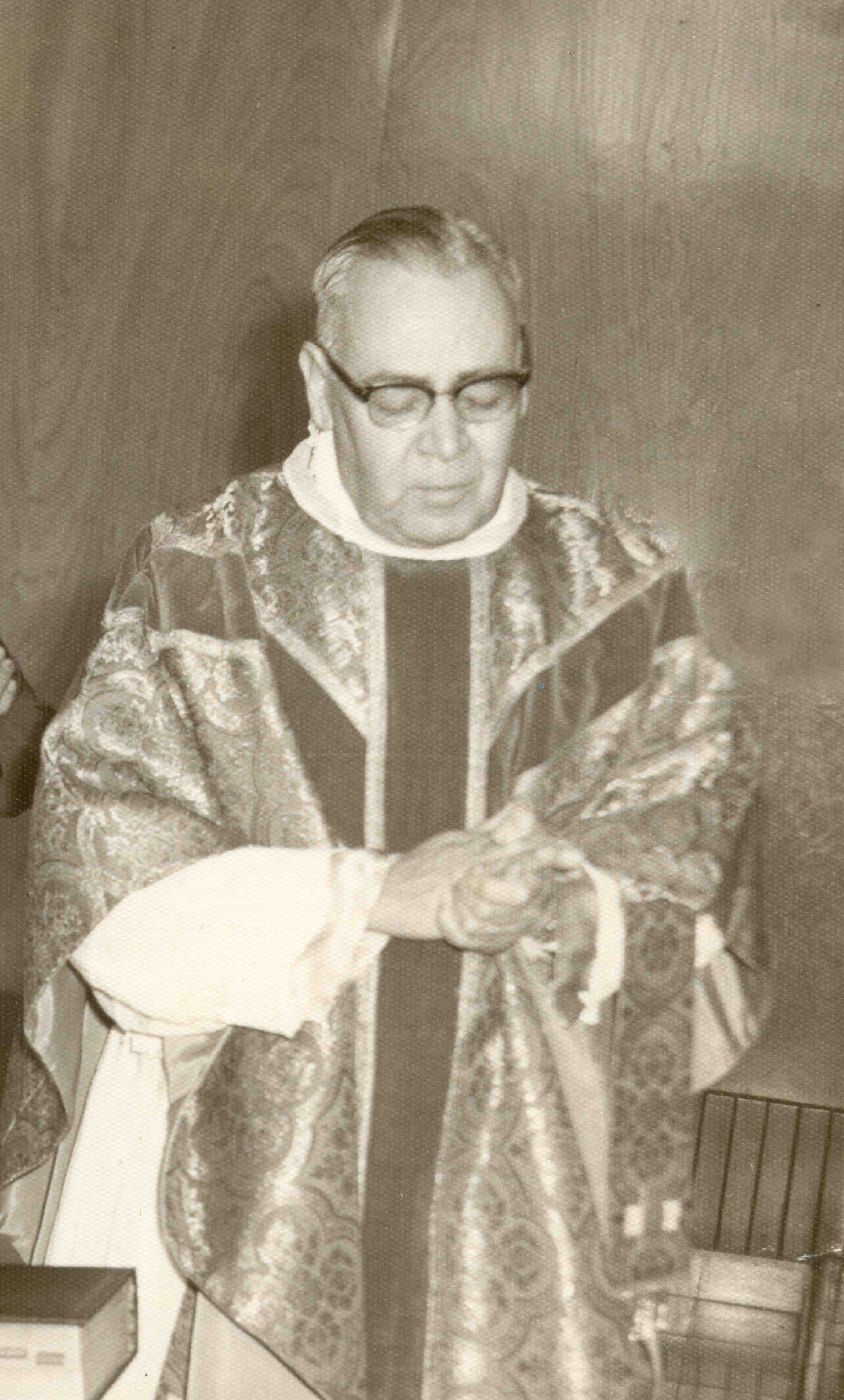 father J. Sáenz - photo of my family album